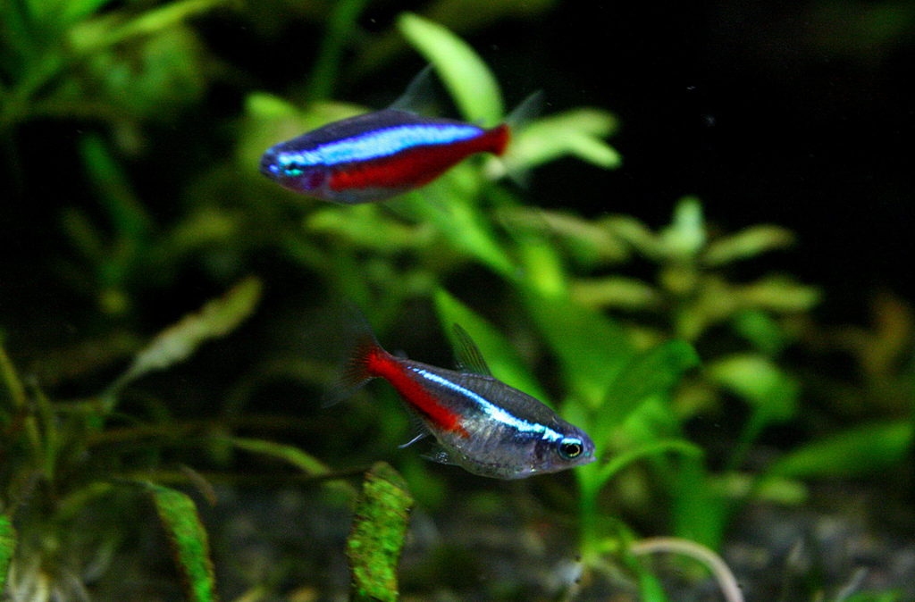 cardinal tetra (back) neon tetra (front)